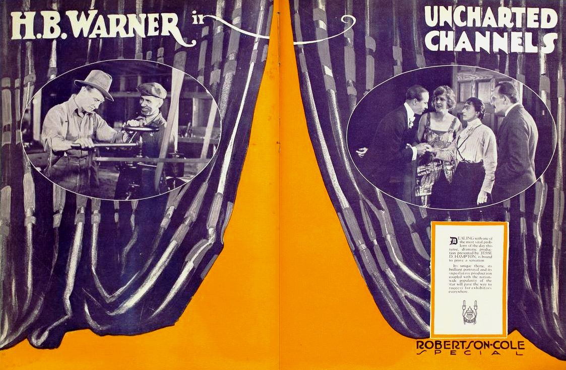 Advertisement for the American drama film Uncharted Channels (1920) with H.B. Warner, Kathryn Adams, Evelyn Selbie, and William Elmer, on pages 4278 and 4279 of the May 22, 1920 Motion Picture News.